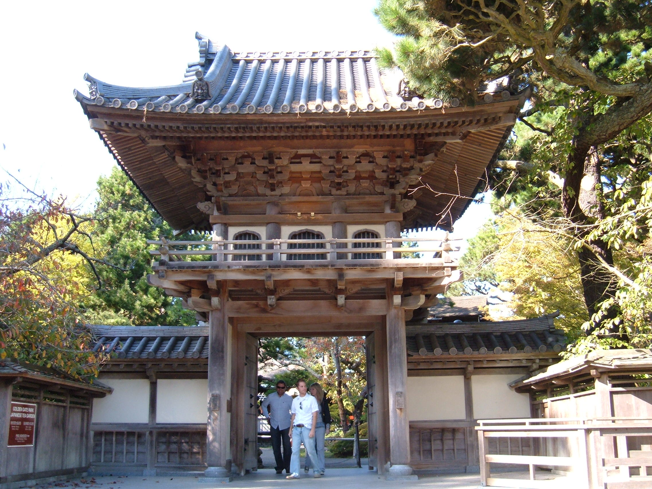 The main entrance to the Japanese Tea Garden in Golden Gate Park in San Francisco, California.